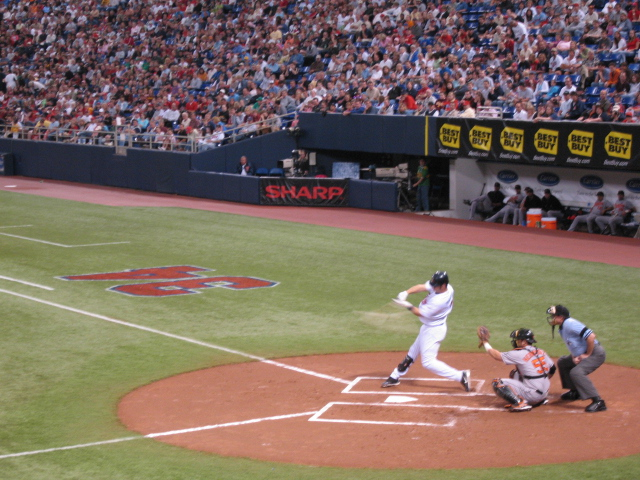 Twins catcher Joe Mauer at bat. Baltimore Orioles at Minnesota Twins, Hubert H. Humphrey Metrodome, Minneapolis, Minnesota